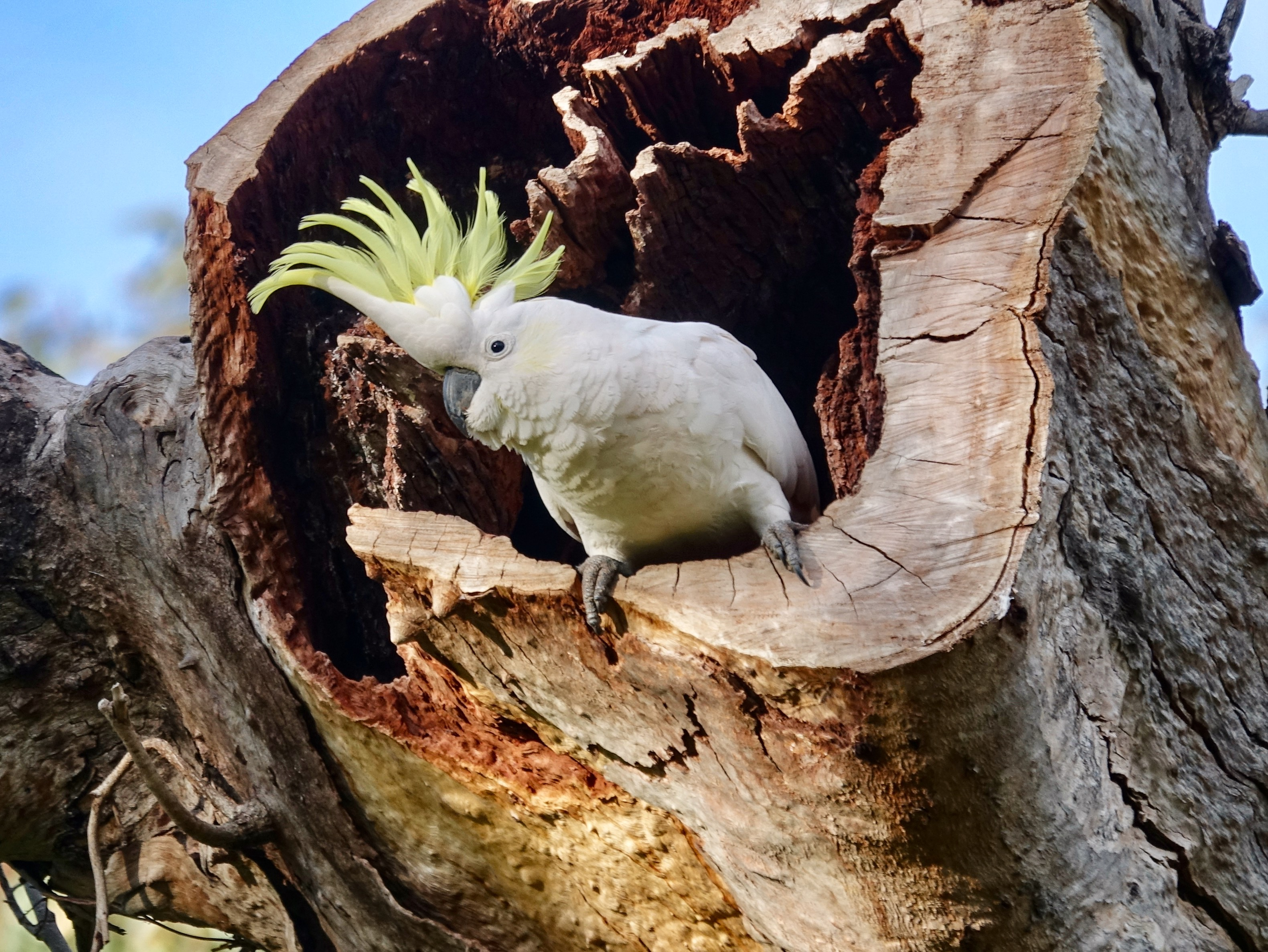 Sulfur-crested Cockatoo